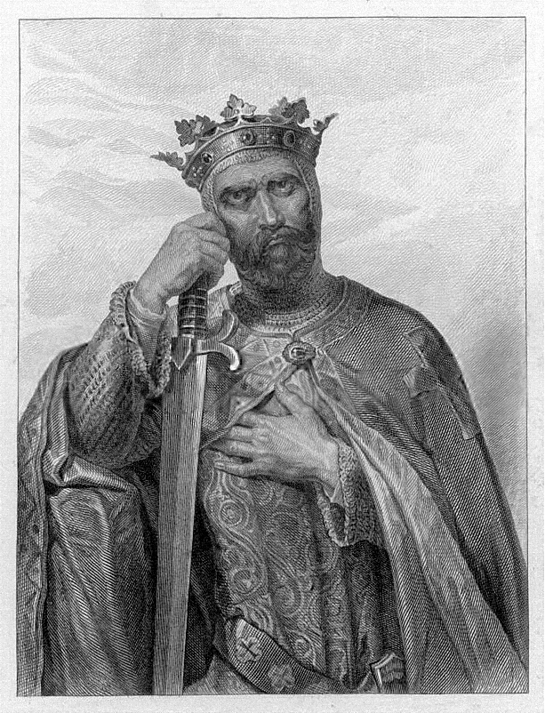 Poster of Bohemond I of Antioch